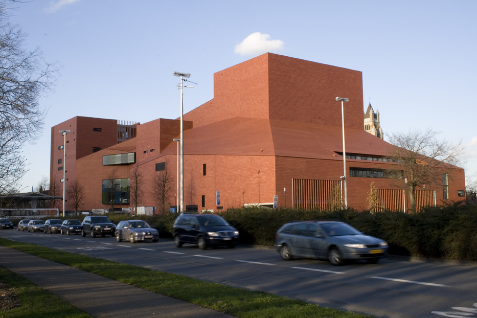 Concertgebouw Bruges